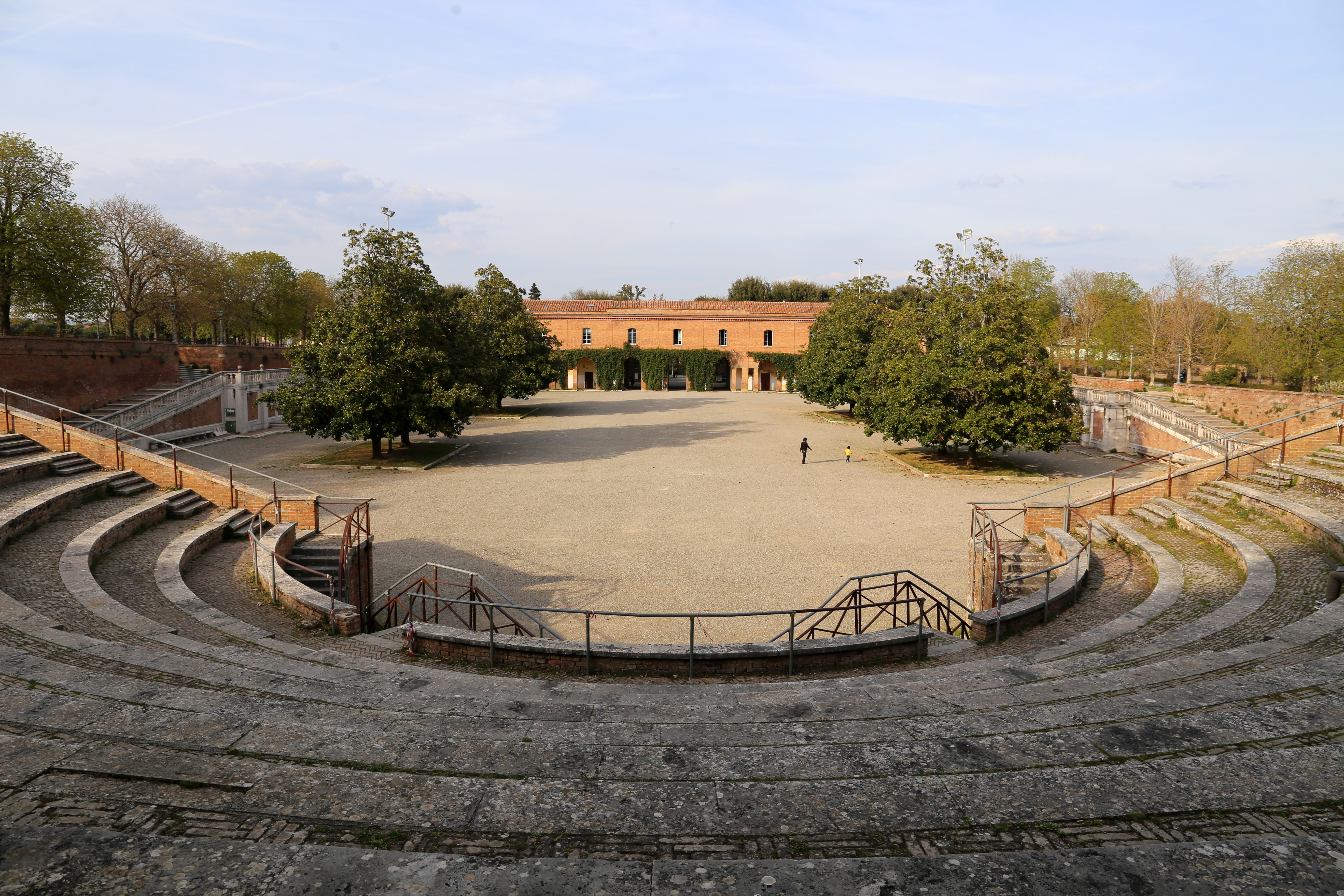 Fortezza Medicea (Siena)